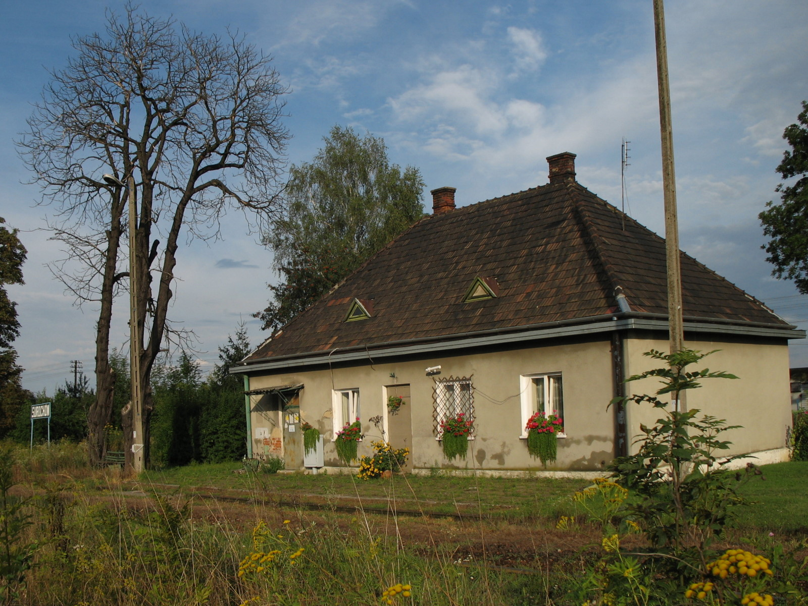 Surochów (Poland) train station